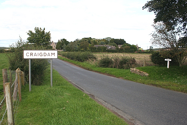 Craigdam This isn't an easy place to photograph because the road through the village weaves between mainly modern homes, all set back from the road among trees. This is from the western edge of the village.